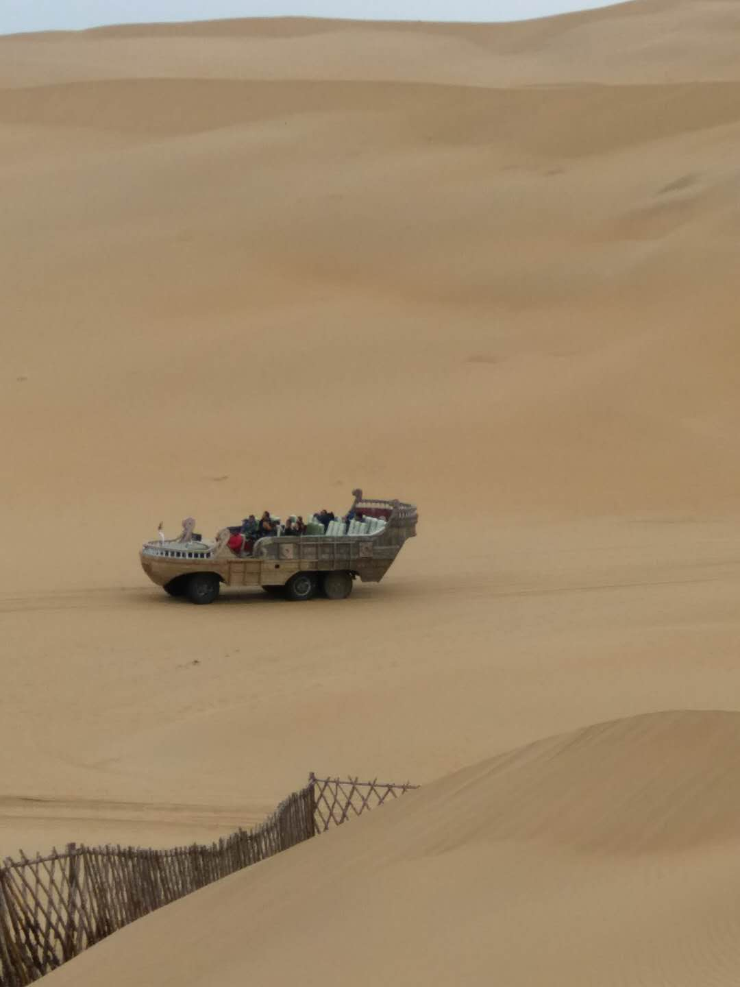 Desert vehicle moving tourists from one island to another at Xiangshawan in Dalad Banner, Ordos, Inner Mongolia in October 2017